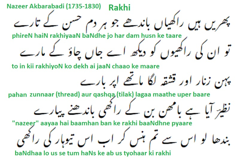 The the last "band" (stanza) of the poem Rakhi by Nazeer Akbarabadi, one of the best-known poets of Urdu, transcribed in English by Fowler&fowler (talk) 06:50, 9 September 2018 (UTC)